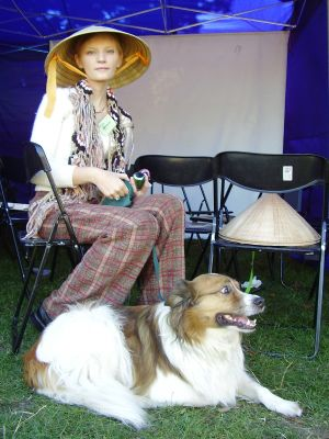 Agata Buzek, Polish actress and model